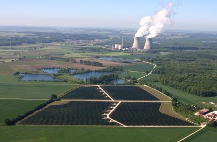 Energiepark Lauingen (Abschnitt I) In the background is the Gundremmingen Nuclear Power Plant